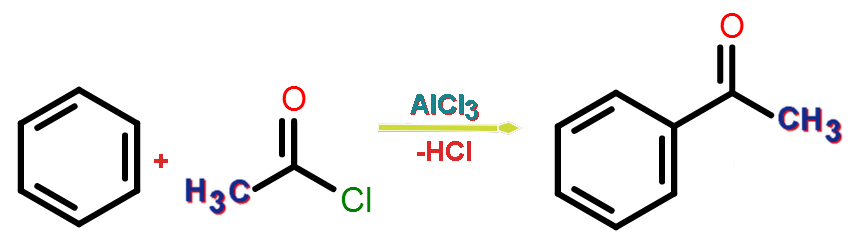 Acetophenone synthesis from benzene and acetyl chloride